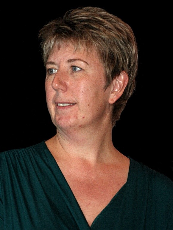 Angela Christine Smith, British Labour Member of Parliament for Sheffield Hillsborough, at the presentations following the 2009 National Hill Climb Championship cycle race near Stocksbridge.